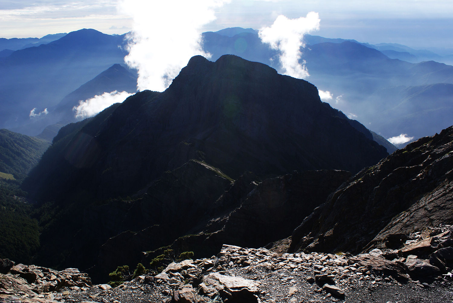 玉山東峰 Jade Mountain Eastern Peak